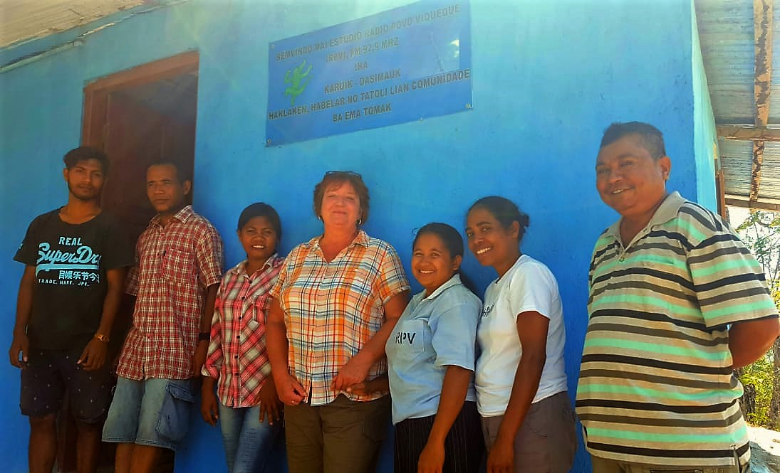 Team of Radio Povo Viqueque in Dilor, East Timor